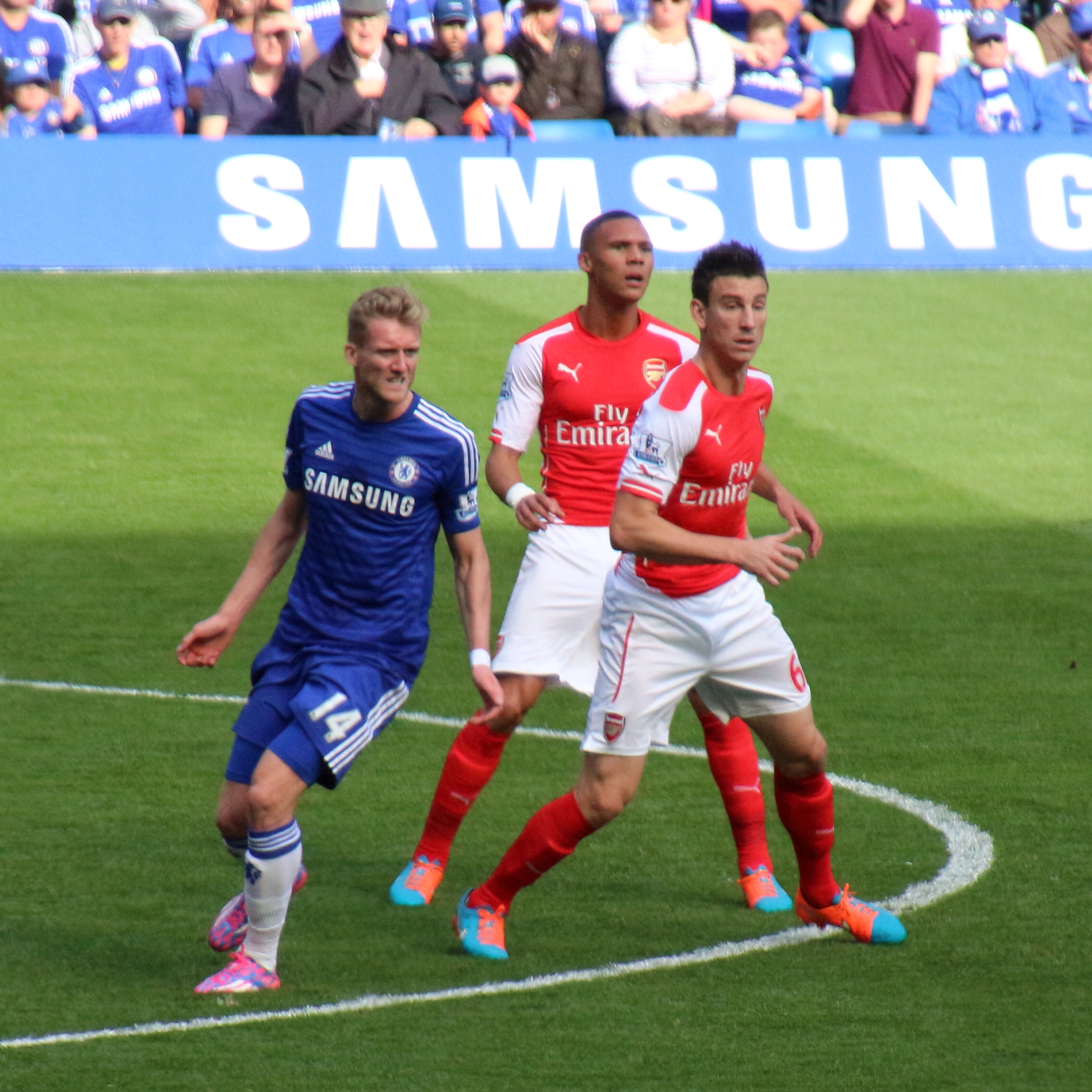 Premier League match between Chelsea and Arsenal at Stamford Bridge on 5 October 2014.